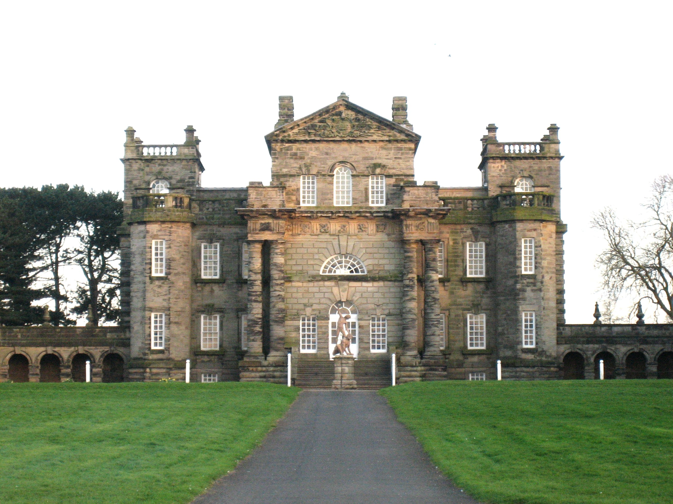 Seaton Delaval Hall - main block from north. The trees have since been cut down